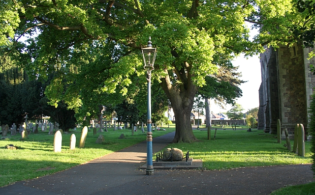 Part of St Matthias' parish churchyard, Church Road, Malvern, Worcestershire. The lamp-post is one of two in the churchyard. They are mid-19th-century and are gaslit. The stone near the base of the lamp-post is the Link-Stone, which is an old parish boundary stone. On some old maps it is called the "Whore-stone". 1327234